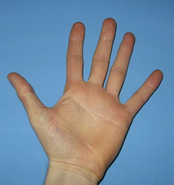 Human left hand